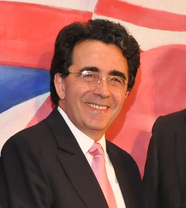 Santiago Calatrava at Wilson Awards.